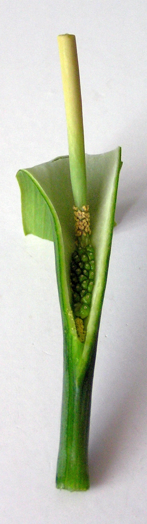 Pinellia pedatisecta inflorescence